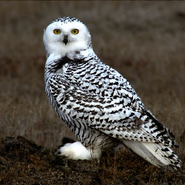 Young Snowy Owl on the tundra at Barrow Alaska.